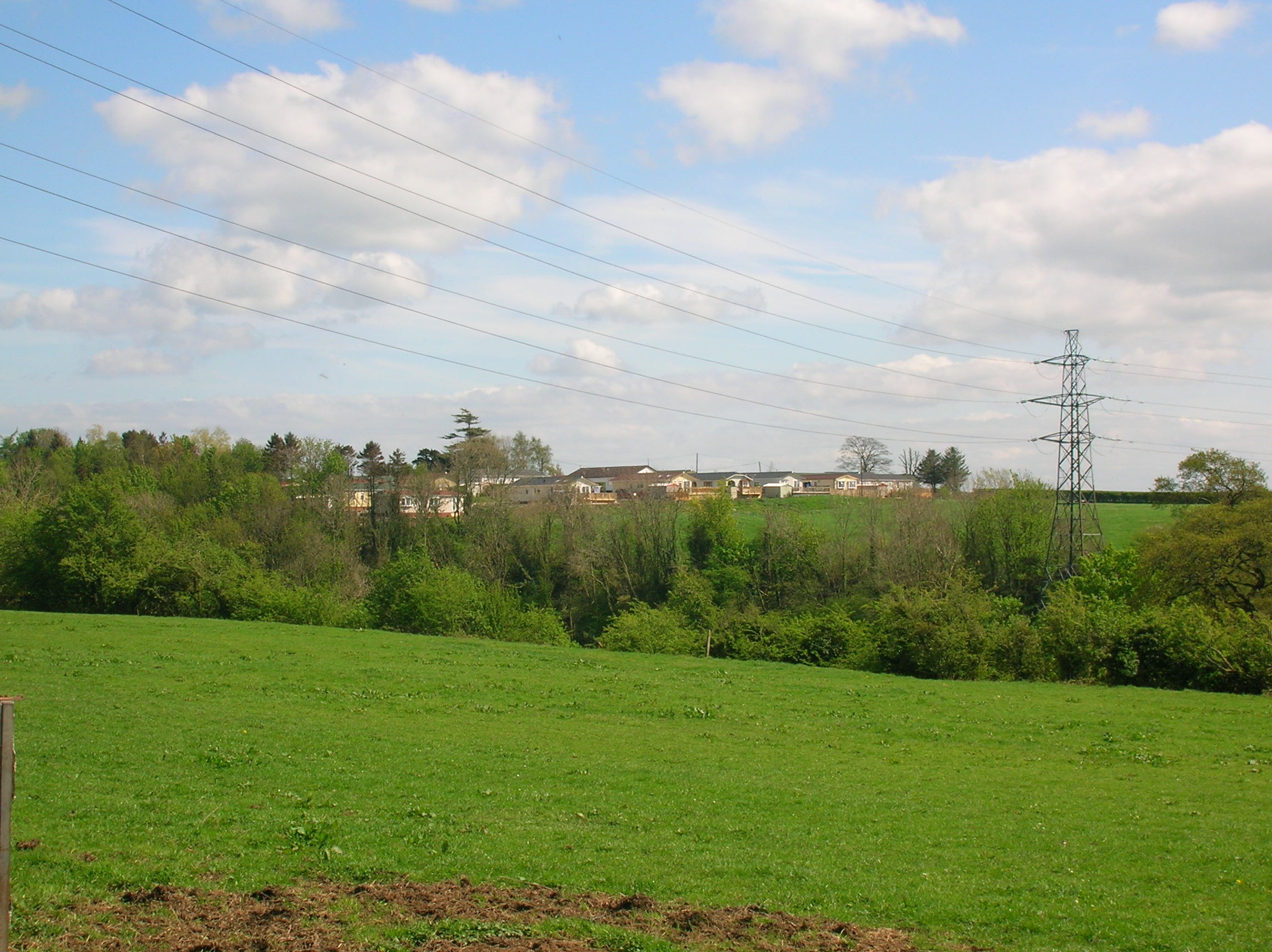 Caravans and housing on the site of old Cunninghamhead House, North Ayrshire, Scotland. 2007. Rosser 11:26, 30 April 2007 (UTC)